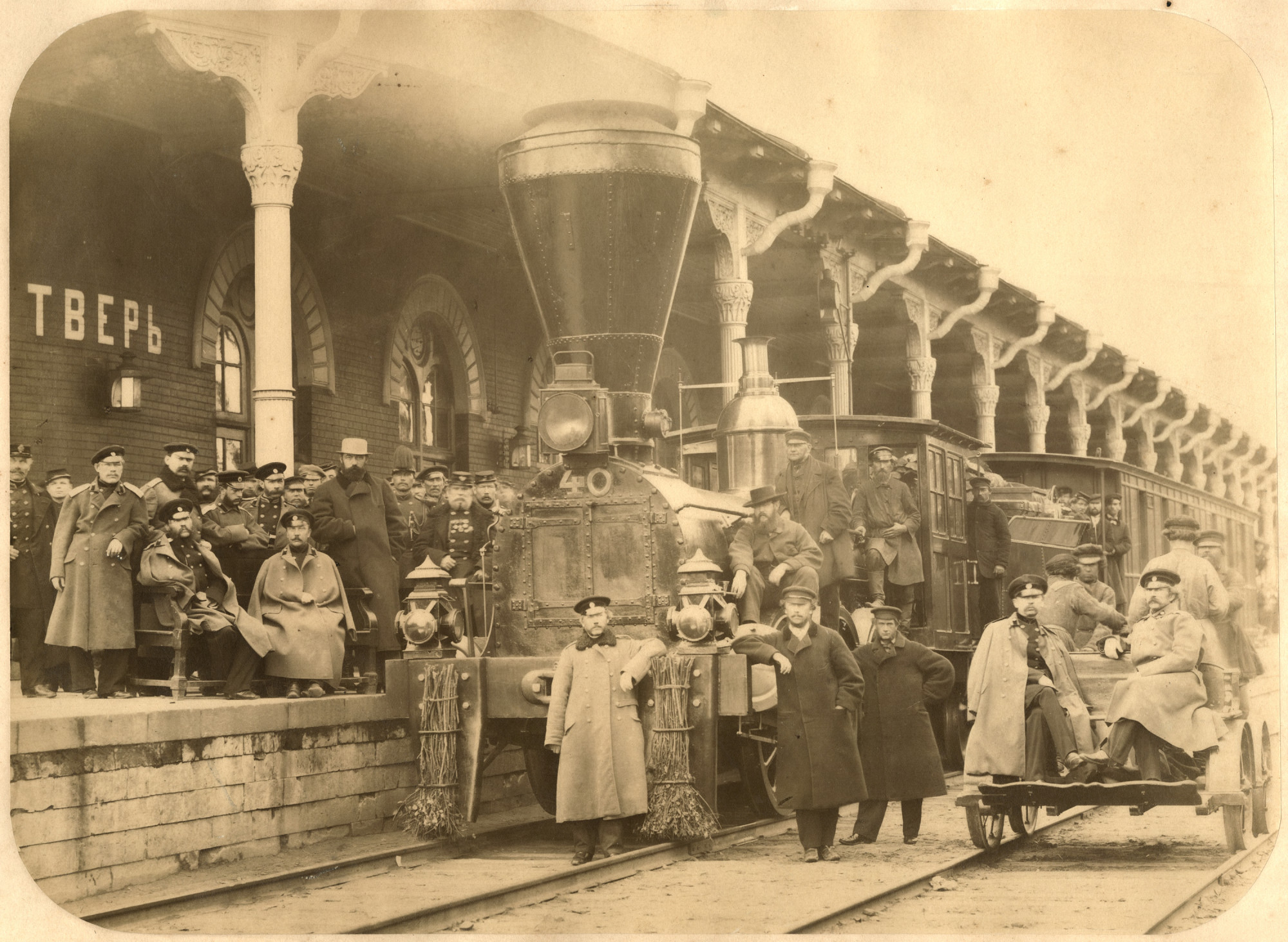 Steam locomotives class Г (0-3-0) on railway station Tver